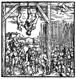 Woodcut from 1589 by Johann Stumpf